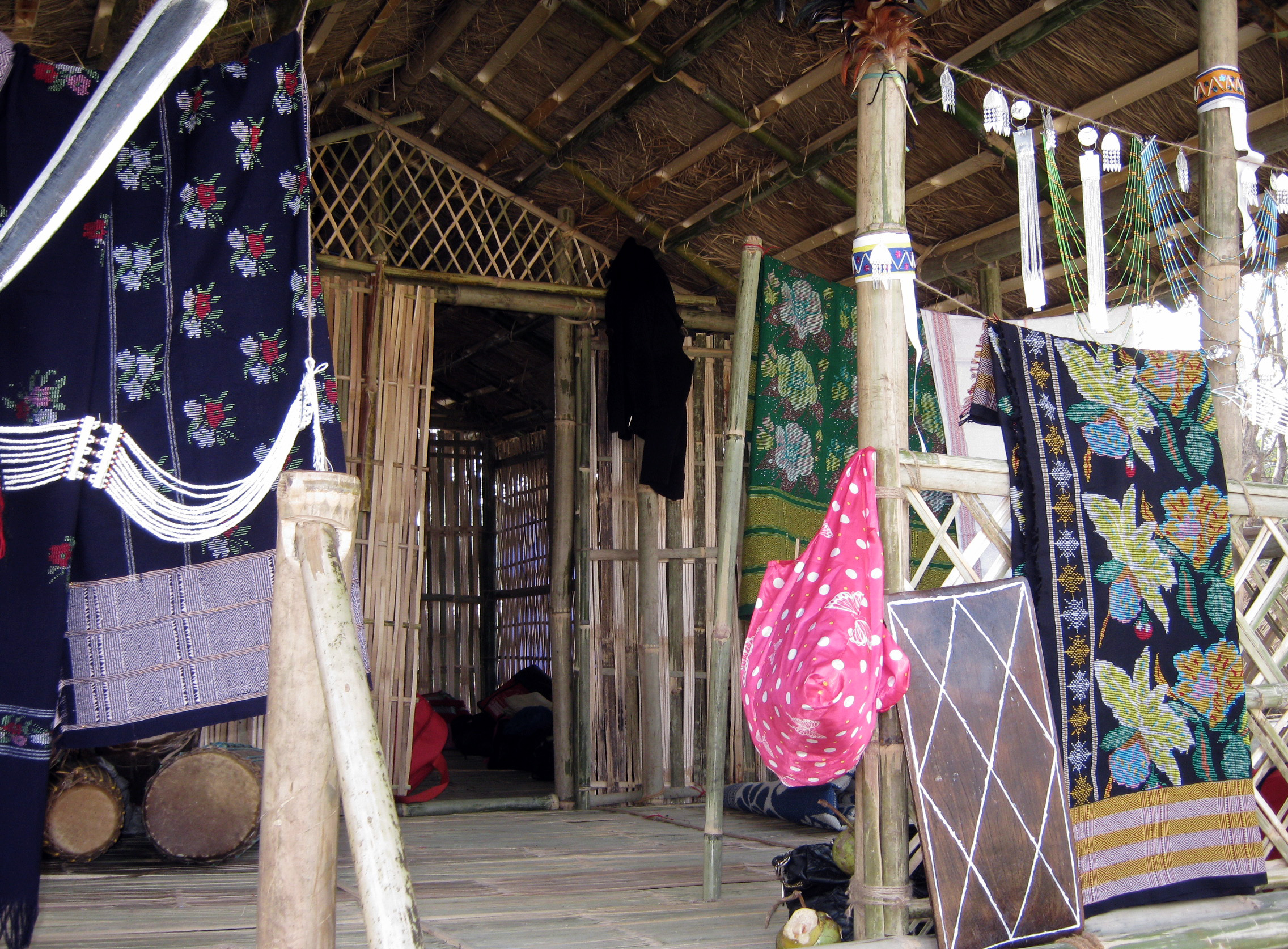 The traditional house of Garo tribes